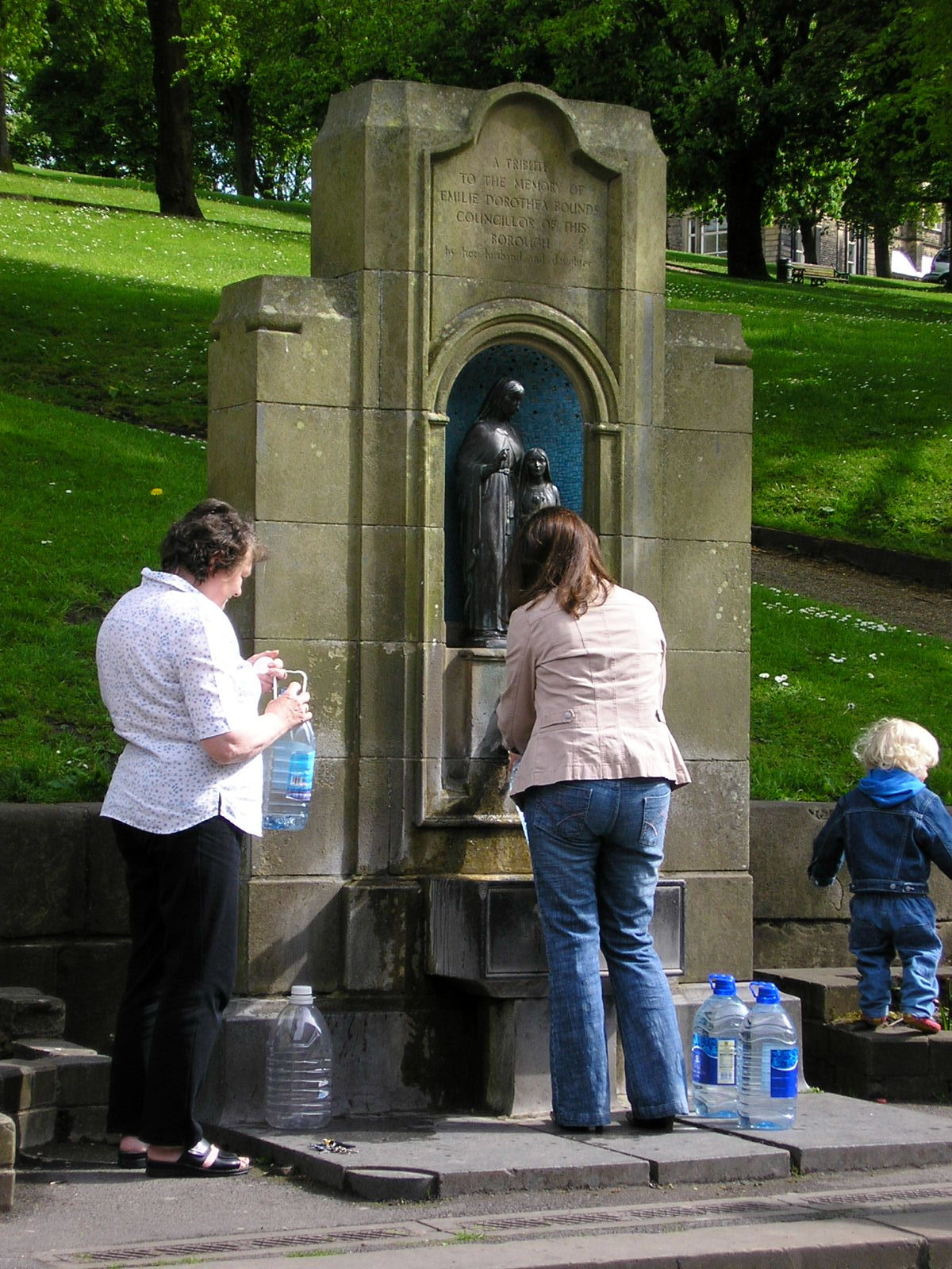 St Ann's Well in The Crescent in the spa town of Buxton, Derbyshire. When he had filled a bottle here, our son asked "how do I turn it off?". It was pointed out to him that the water had been running continuously since the end of the last Ice Age at least and that there was no need to turn it off. Most of the water from this spring is bottled and sold commercially but there may well be an ancient endowment that requires it to be available free of charge. Certainly there is a continuous stream of people filling their bottles here - another pic.